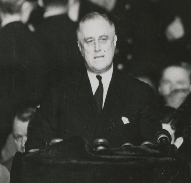 FDR accepts the nomination for the Presidency in speech at Franklin Field, Philadelphia, PA. June 27, 1936.